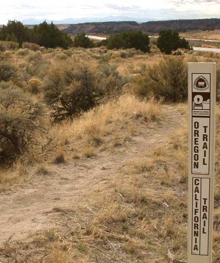 Preserved section of the Emigrant Trail near Massacre Rocks State Park in southern Idaho.